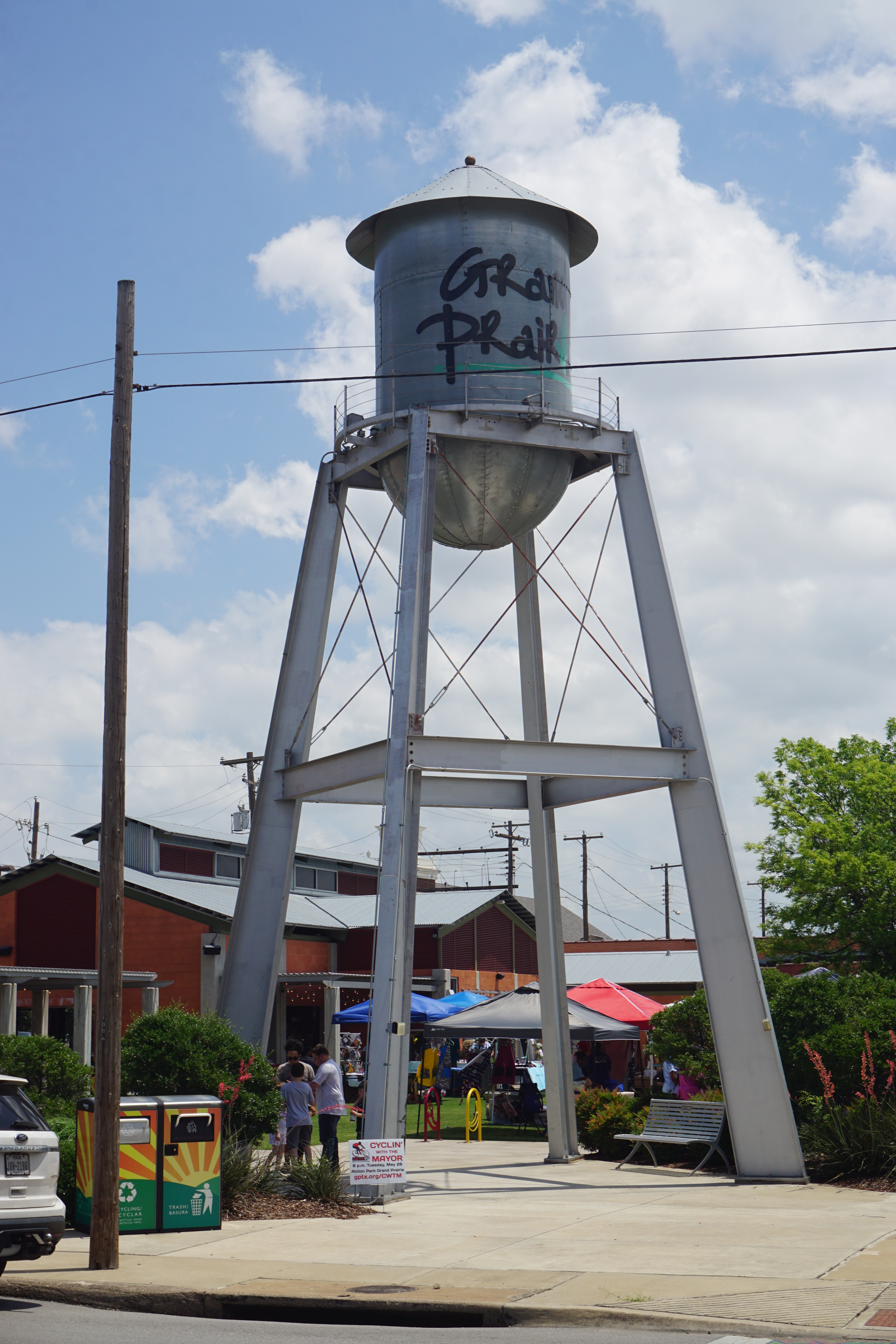 The Market Square water tower in Grand Prairie, Texas (United States).